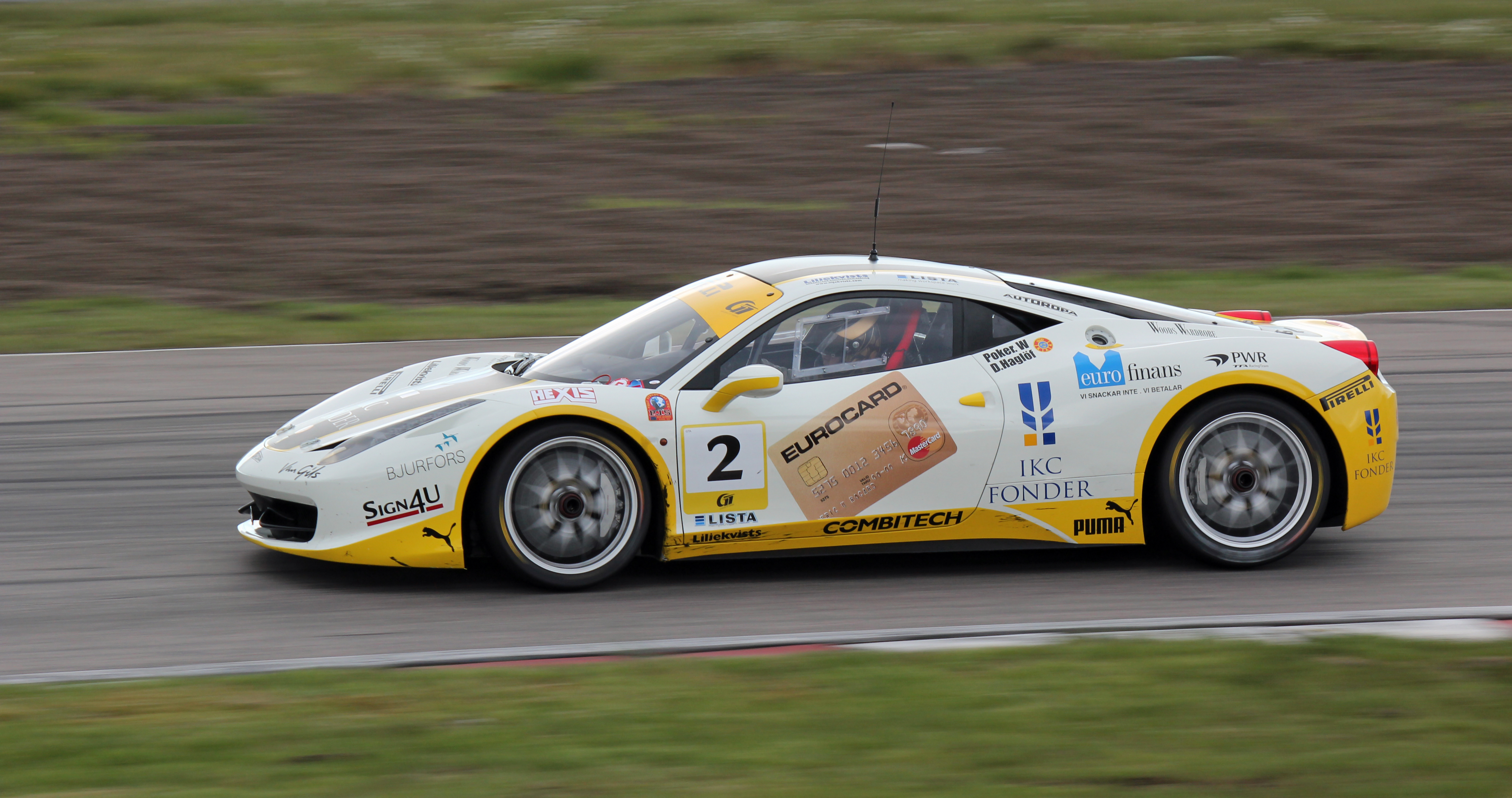 Peter "Poker" Wallenberg in a Ferrari 458 Challenge for IKC Scuderia Autoropa in Swedish GT Series at Anderstorp Raceway in 2012. His team mate was Daniel Haglöf.